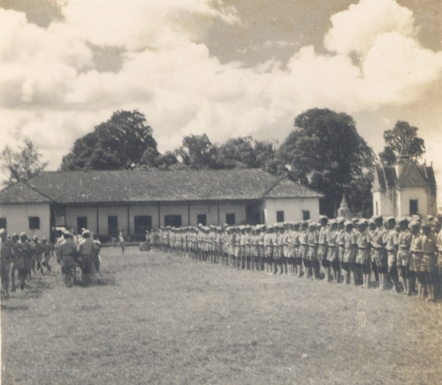 visuttharangsi kanchanaburi